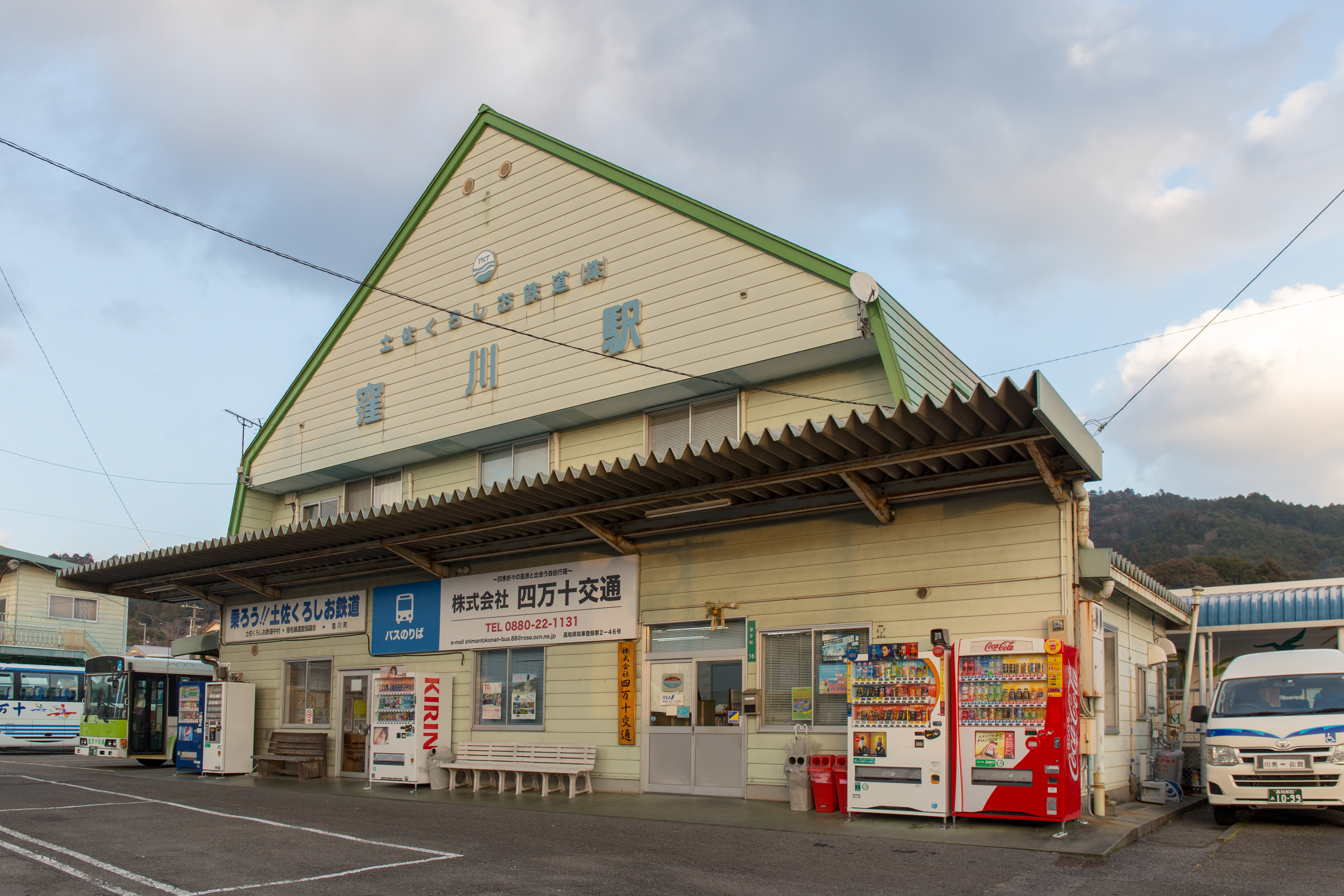 Tosa Kuroshio Railway and Shimanto Kotsu headquarters in Shimanto Town, Kochi Prefecture, Japan